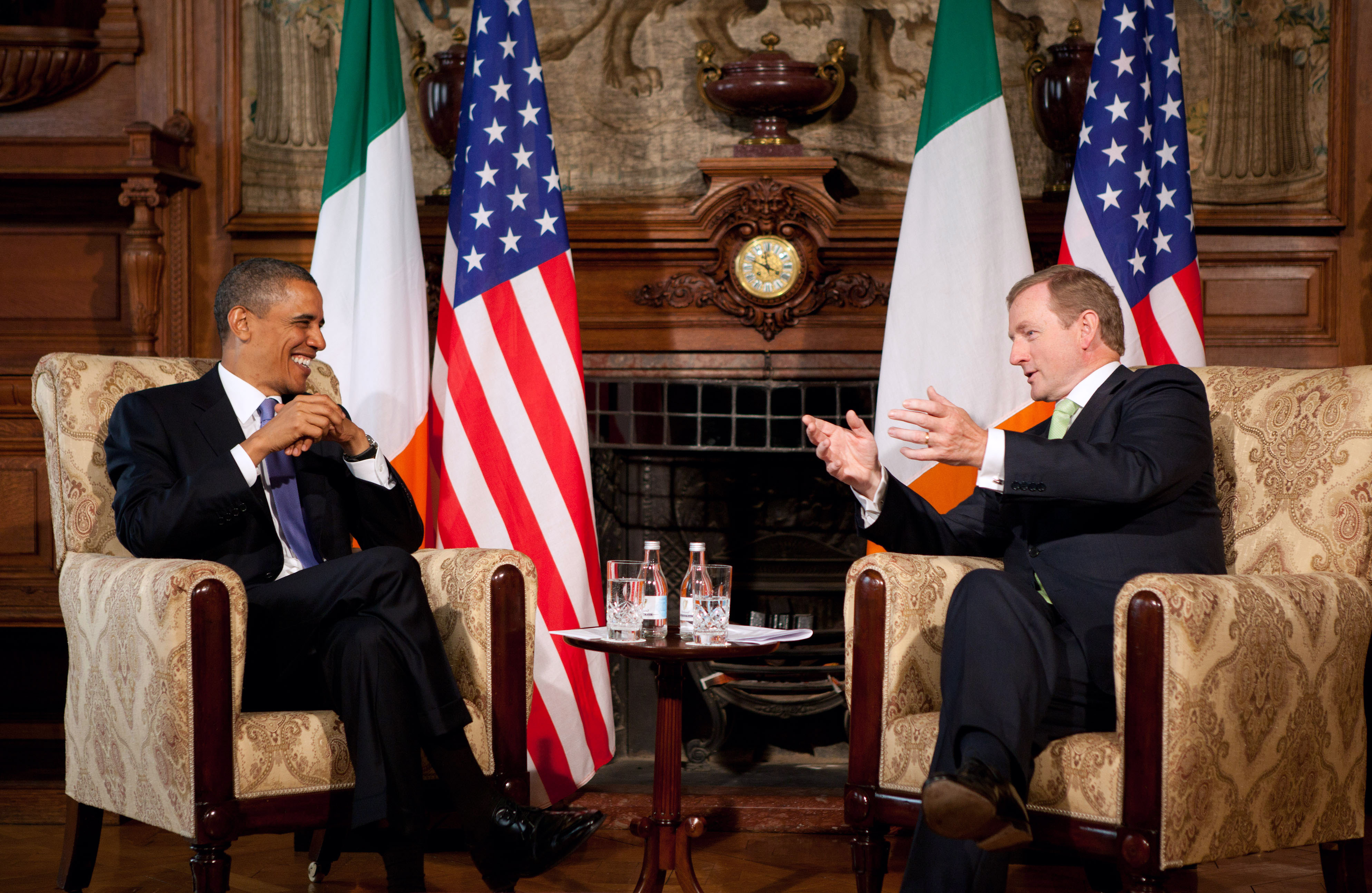 United States President Barack Obama and Taoiseach Enda Kenny hold a bilateral meeting in the Dining Room at Farmleigh in Dublin, Ireland on 23 May 2011.